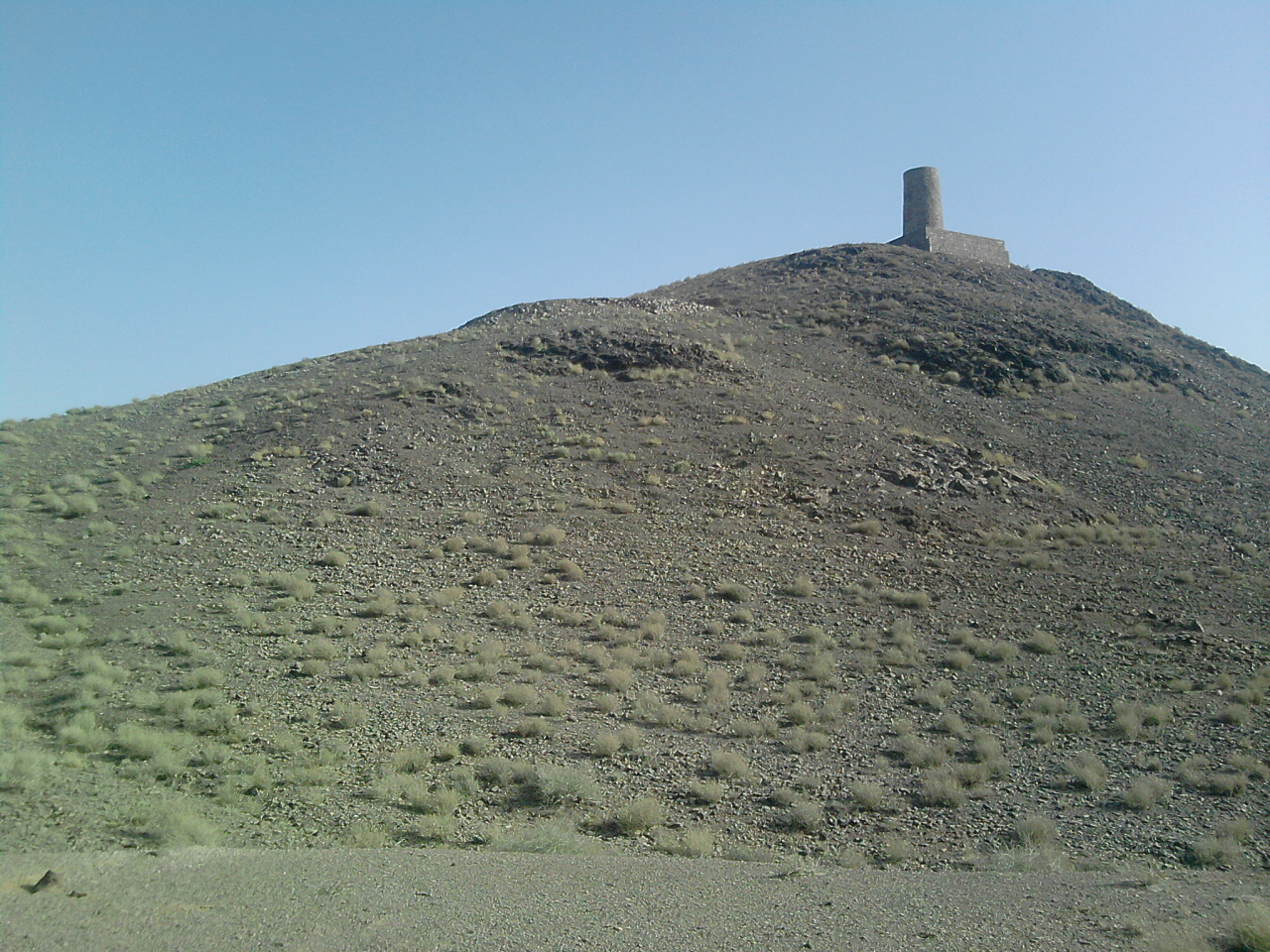 Sangi-Aliabad Tower